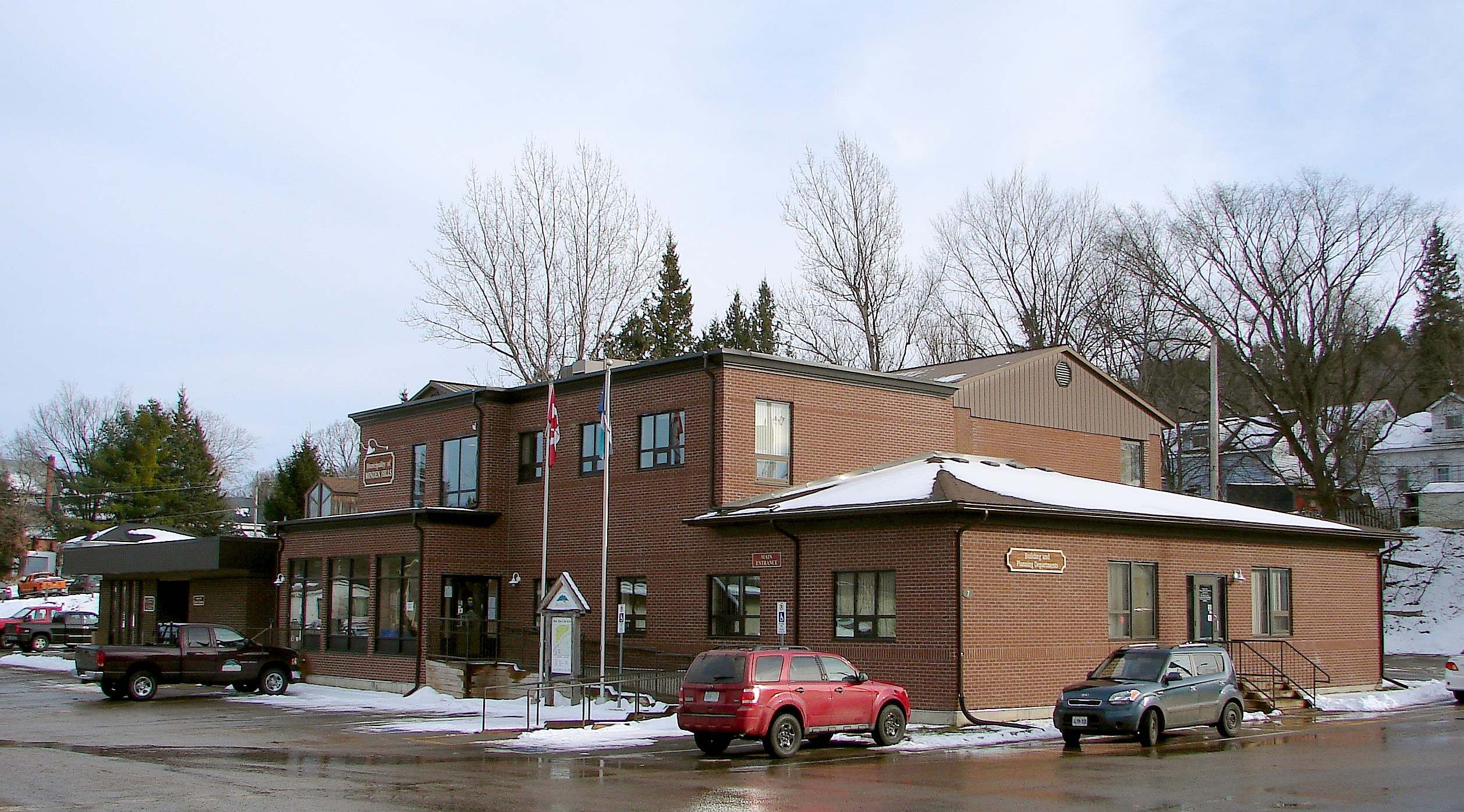 Town hall of Minden Hills in Minden, Ontario, Canada